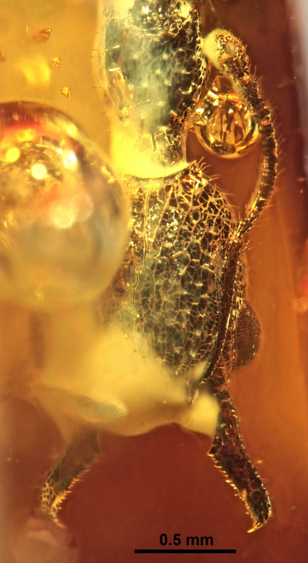 Closeup view of a Electromyrmex klebsi worker head. Baltic Amber, Middle Eocene; Lithuania, Baltic Region, Europe. Geosciences Rennes, University of Rennes, specimen IGRBA012